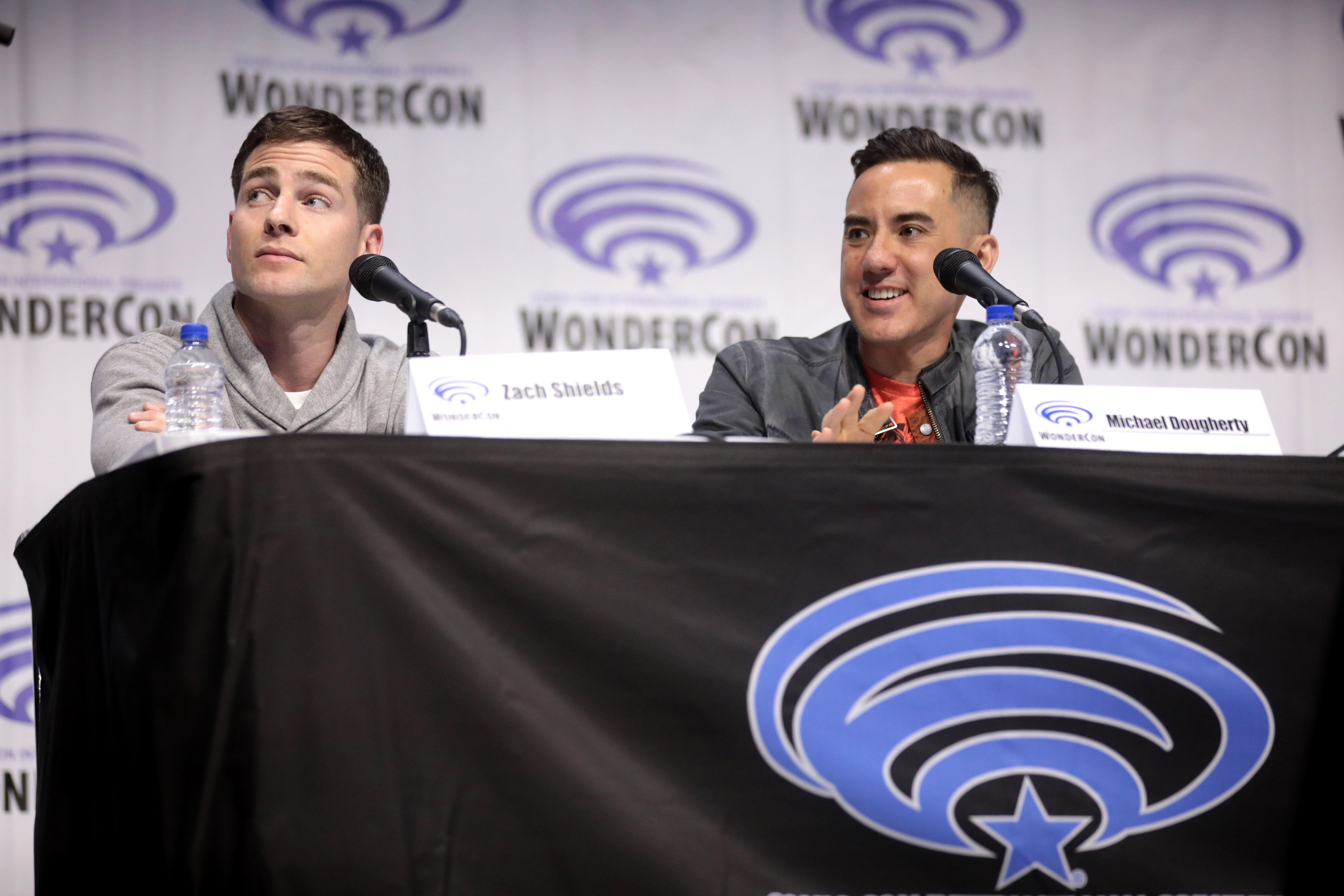 Zach Shields and Michael Dougherty speaking at the 2019 WonderCon, for "Godzilla: King of the Monsters", at the Anaheim Convention Center in Anaheim, California.